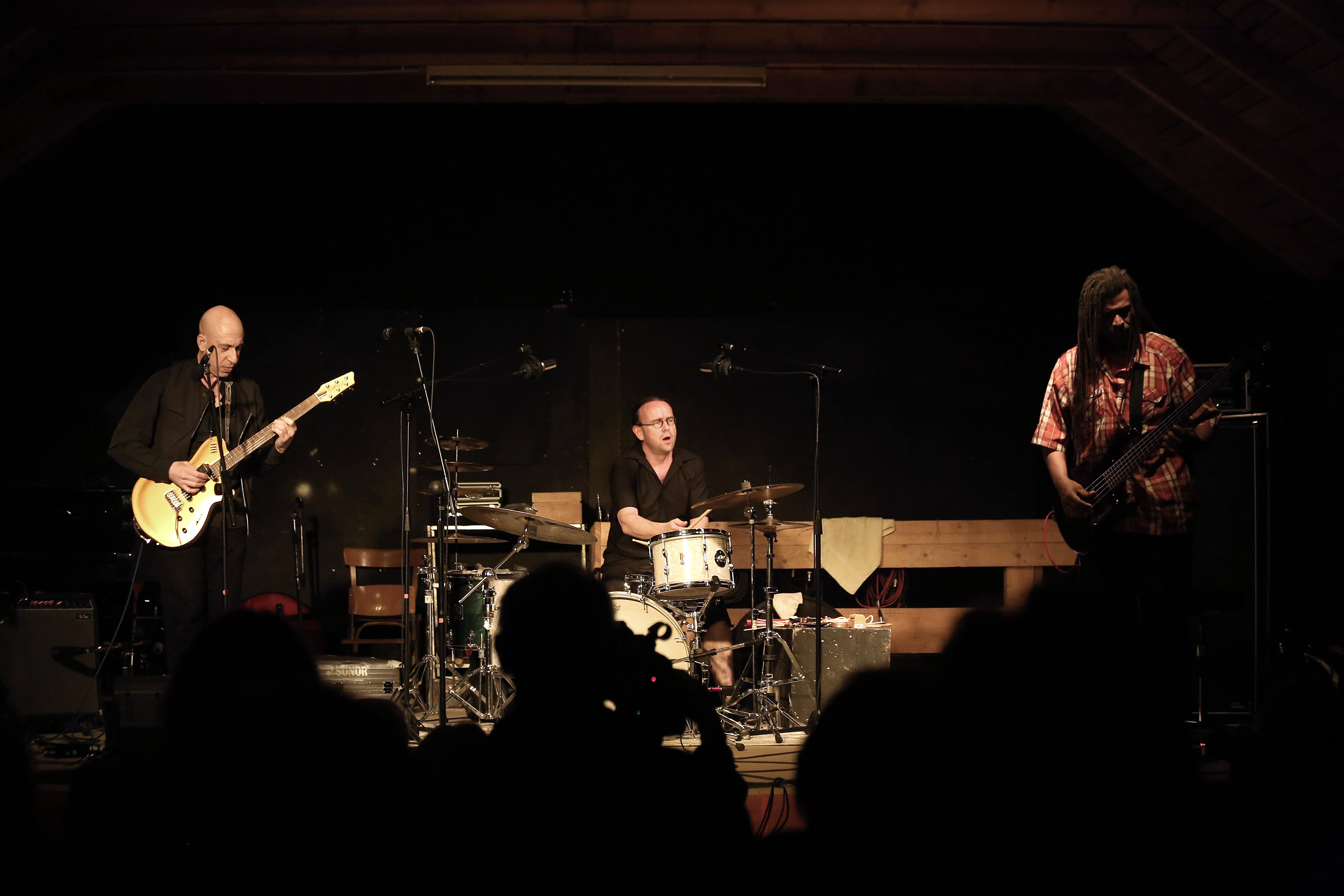 SHARP - GIBBS - NIGGLI - Elliott Sharp, Melvin Gibbs, Lucas Niggli - Ulrichsberger Kaleidophon (Ulrichsberg, Upper Austria)